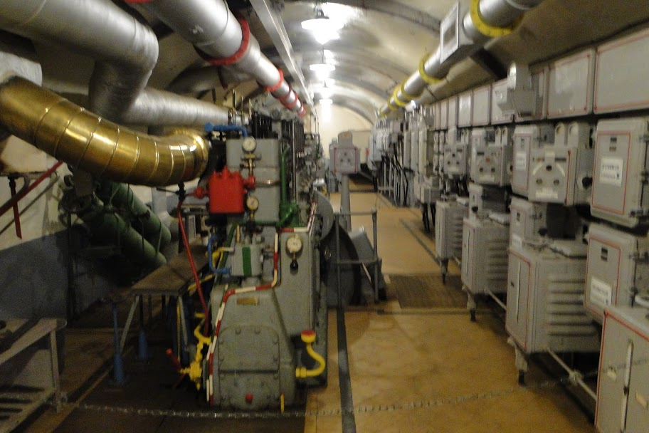 Power Station, Shoenenbourg